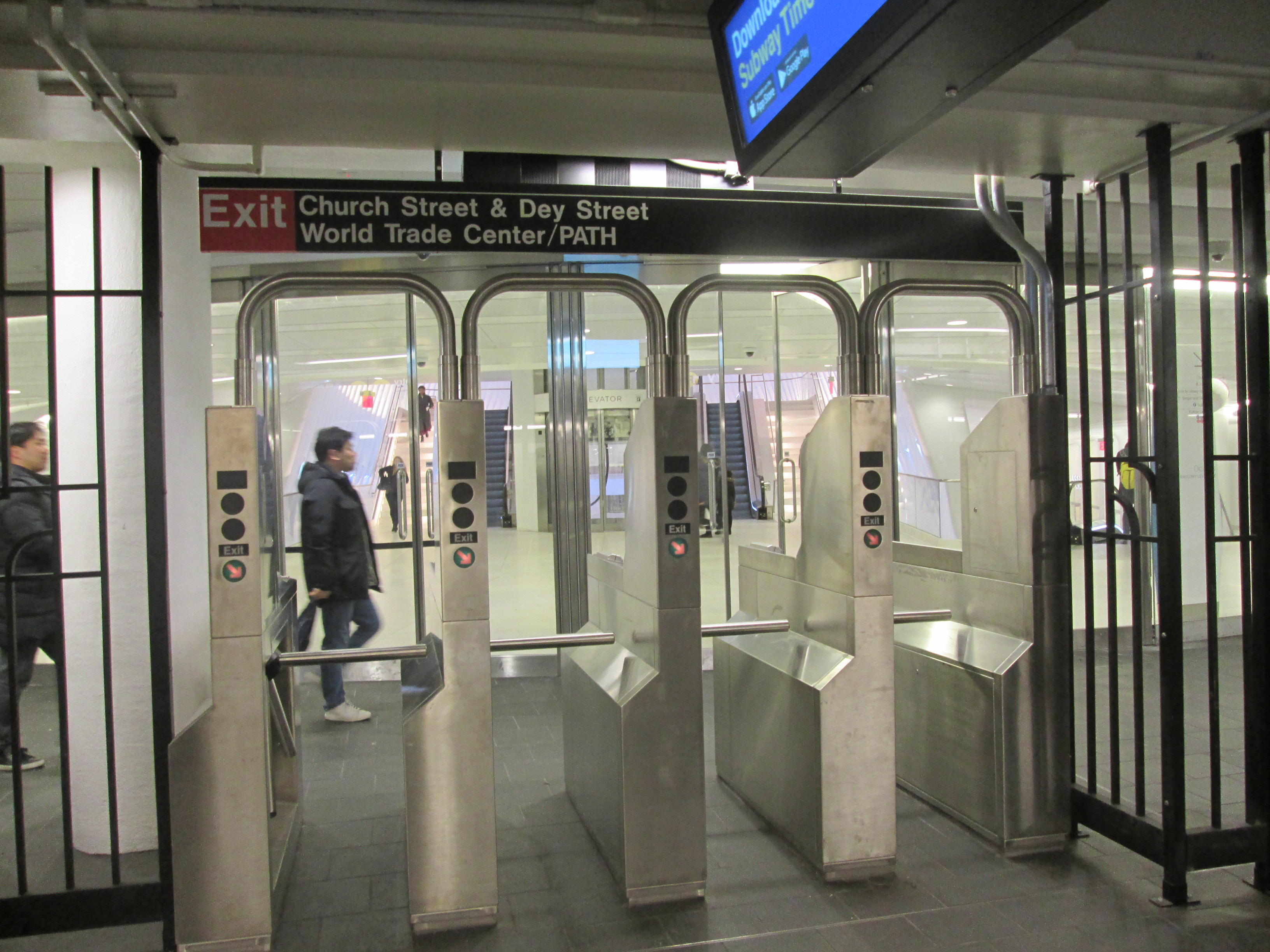 Connection between Cortlandt Street (BMT Broadway Line) and the World Trade Center Transportation Hub